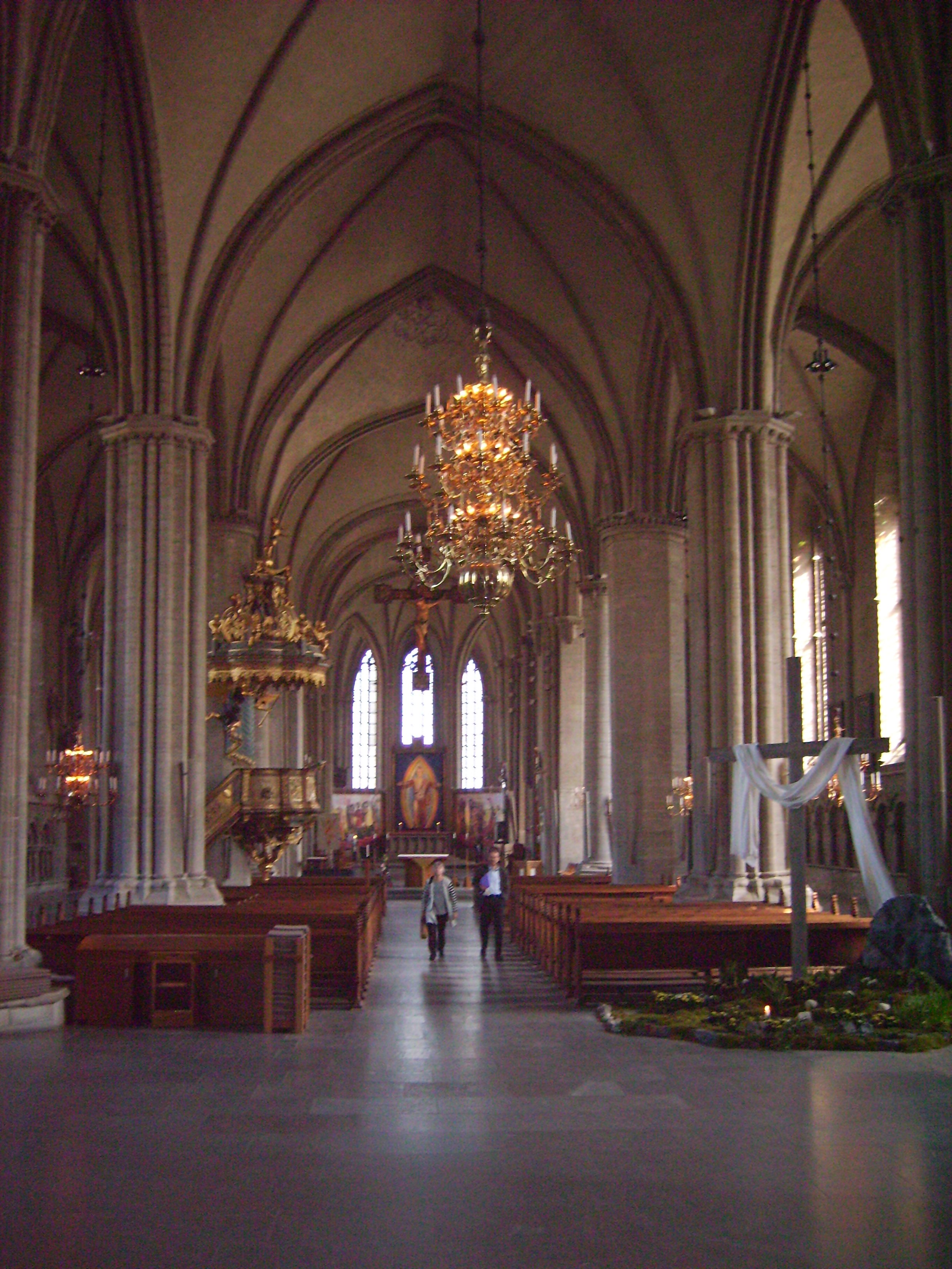 Photo by Harri Blomberg.